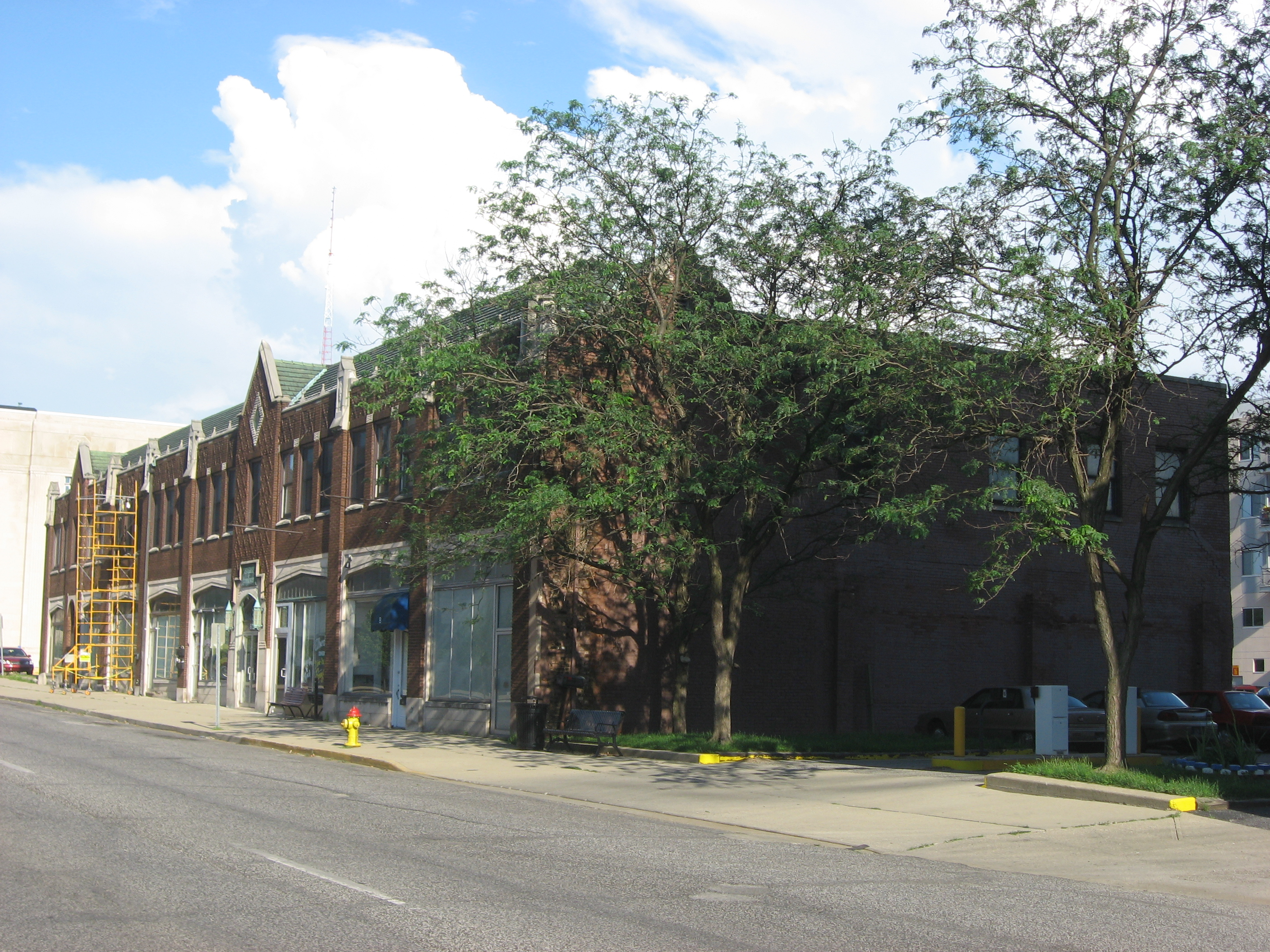 Front and western side of the Chamber of Commerce Building, located at 627 Cherry Street in Terre Haute, Indiana, United States. Built in 1925, it is listed on the National Register of Historic Places.